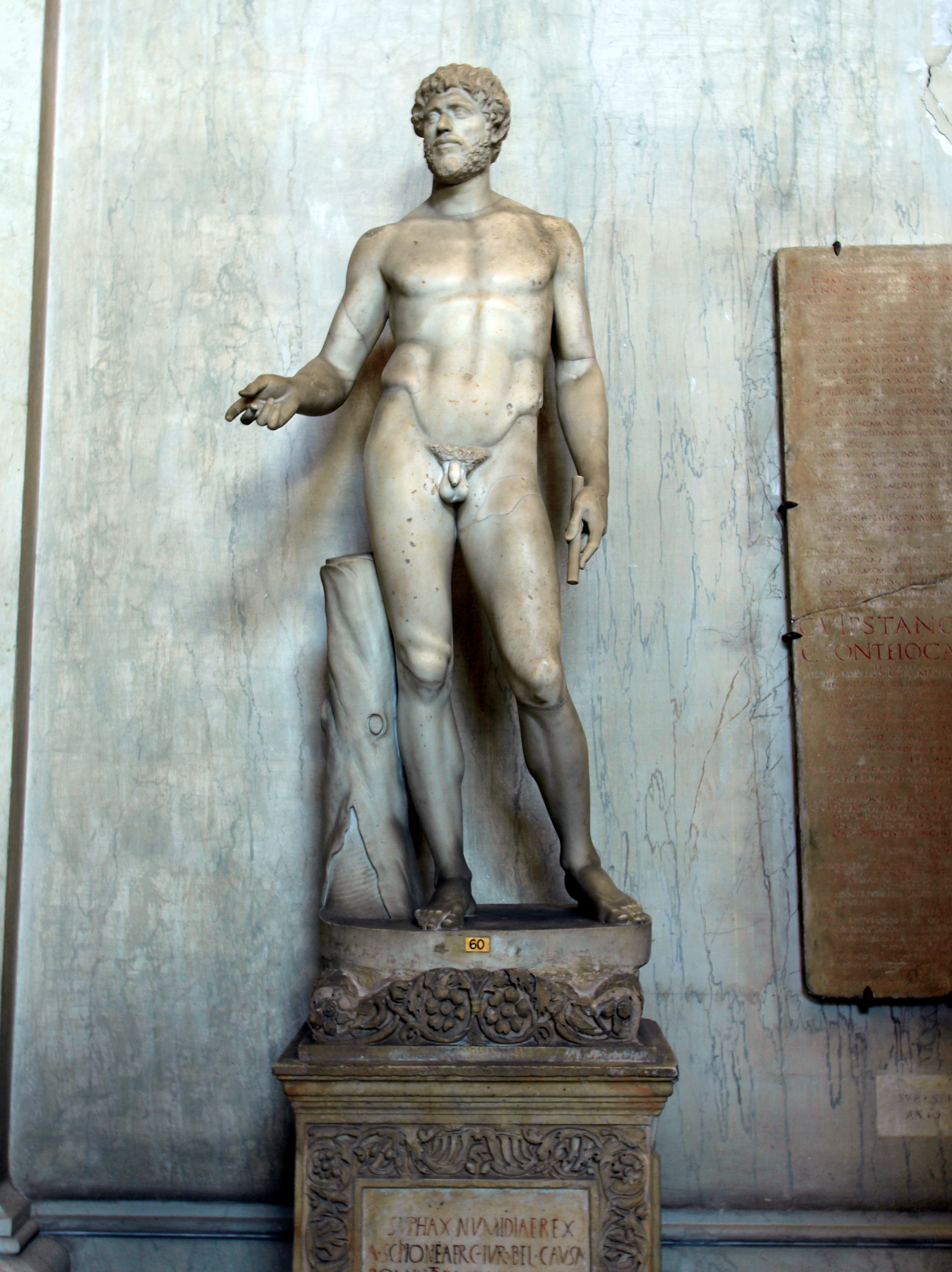 Statue of a male in the Vatican museum, SUPHAX NUMIDIAEREX.